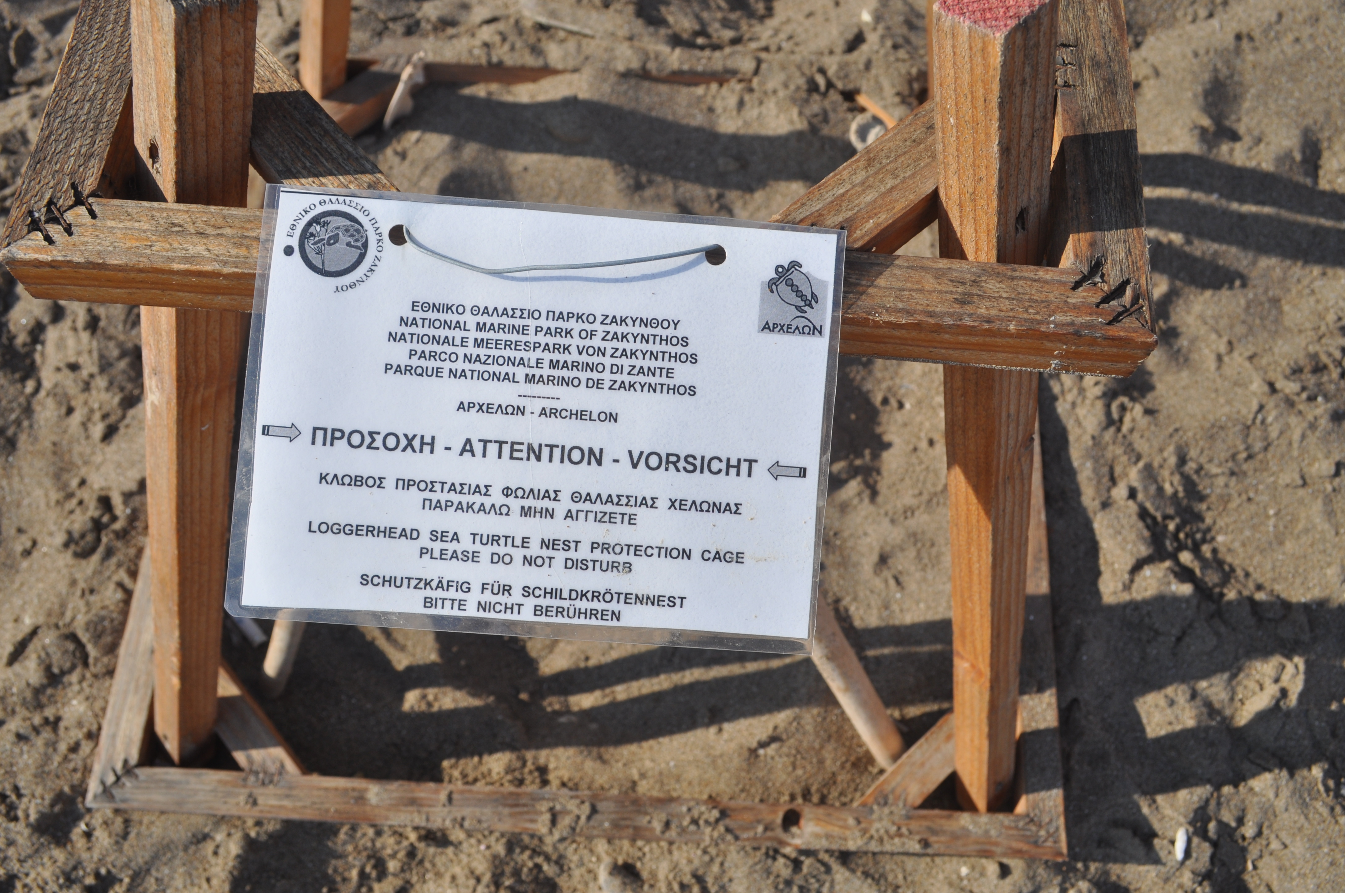 Sign to show that turtle nests are lying in the beach